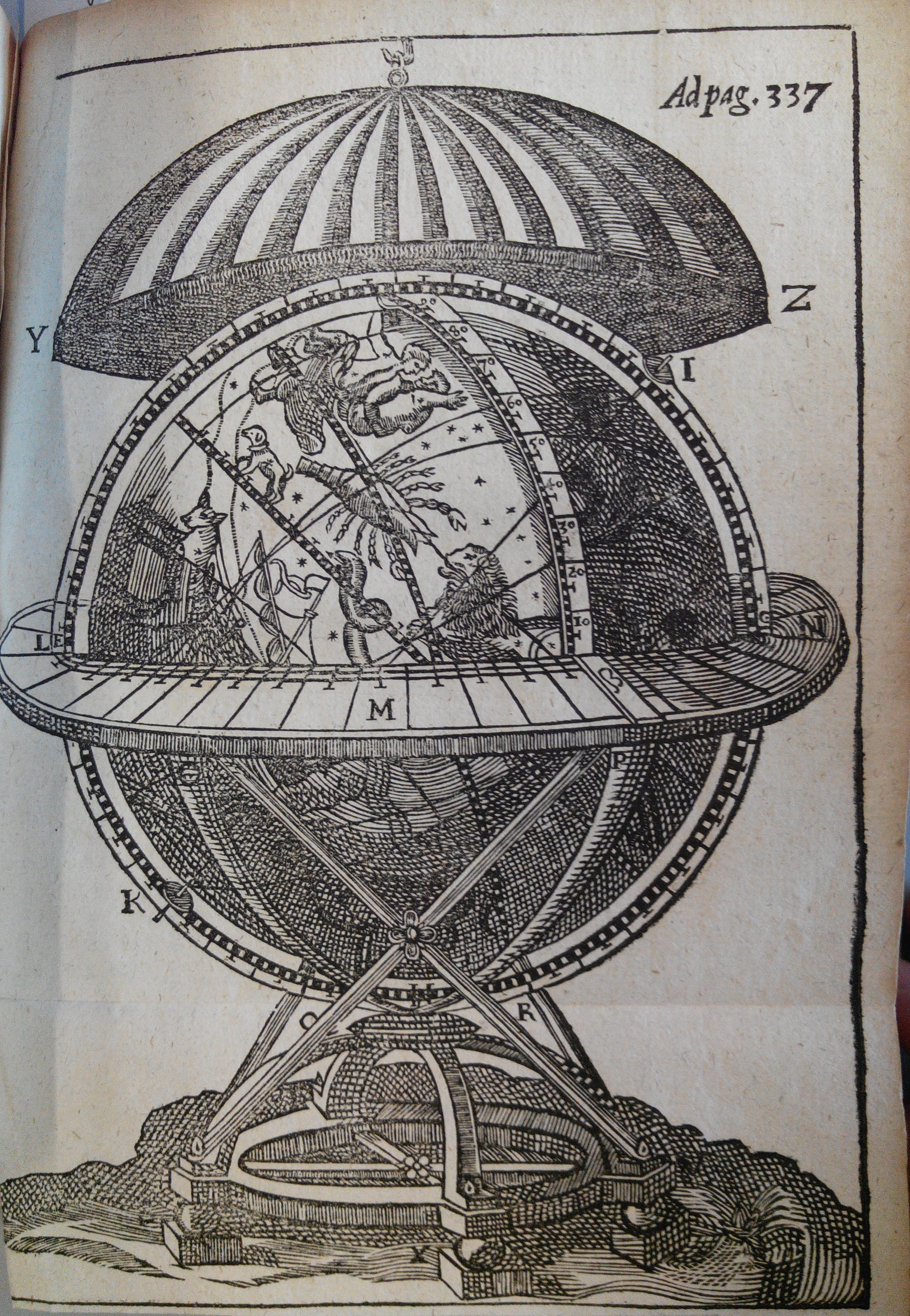 Gravure du globe de Sophie et Tycho Brahe extraite du livre "Inscriptiones Hafnienses latinae, danicae et germanicae, una cum inscriptionibus Amagriensibus, Uraniburgicis et Stellaeburgicis"